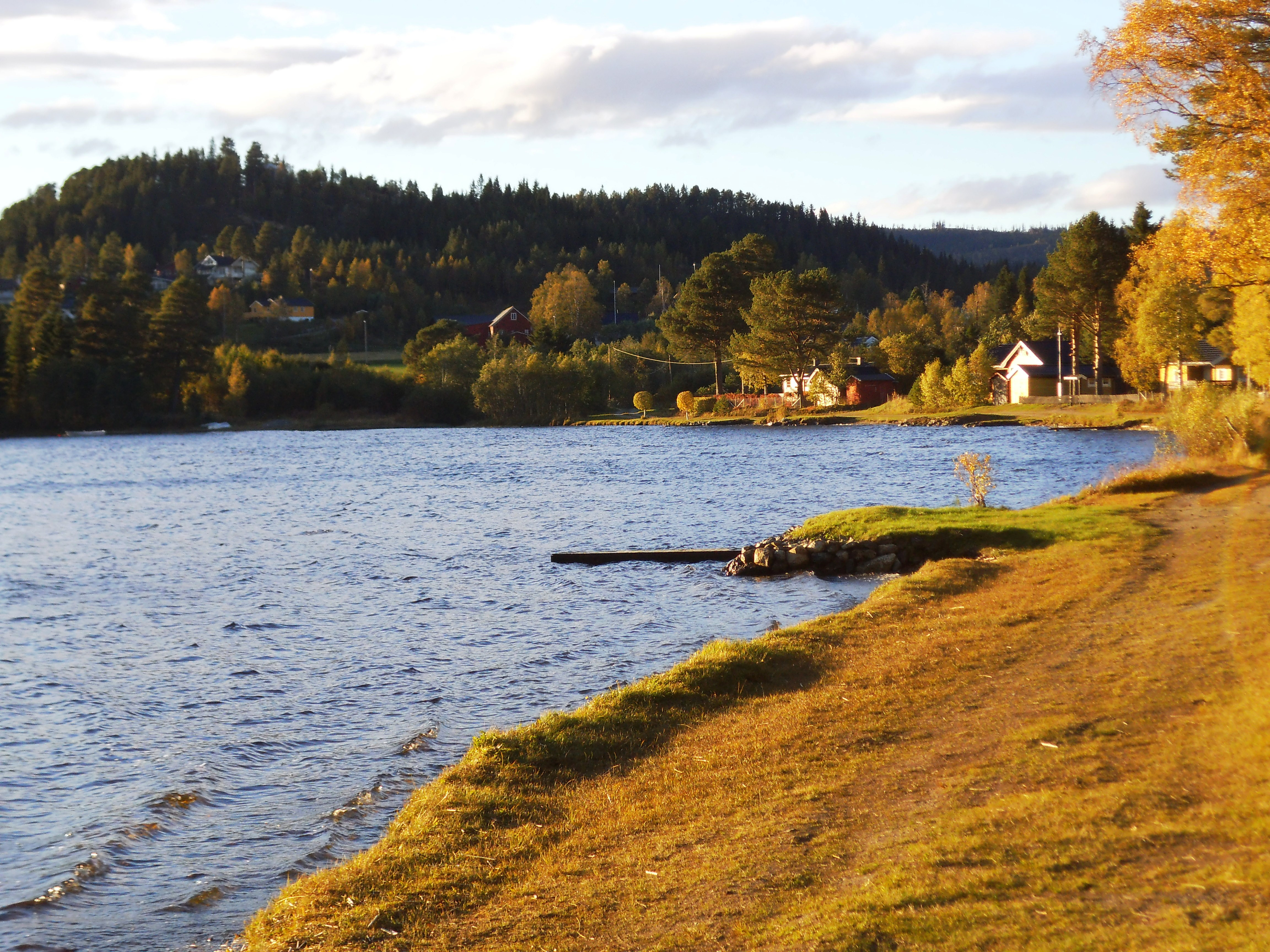 Gaustadvatnet. A lake in Korsvegen. The northern part of the lake. A place called "Enden".